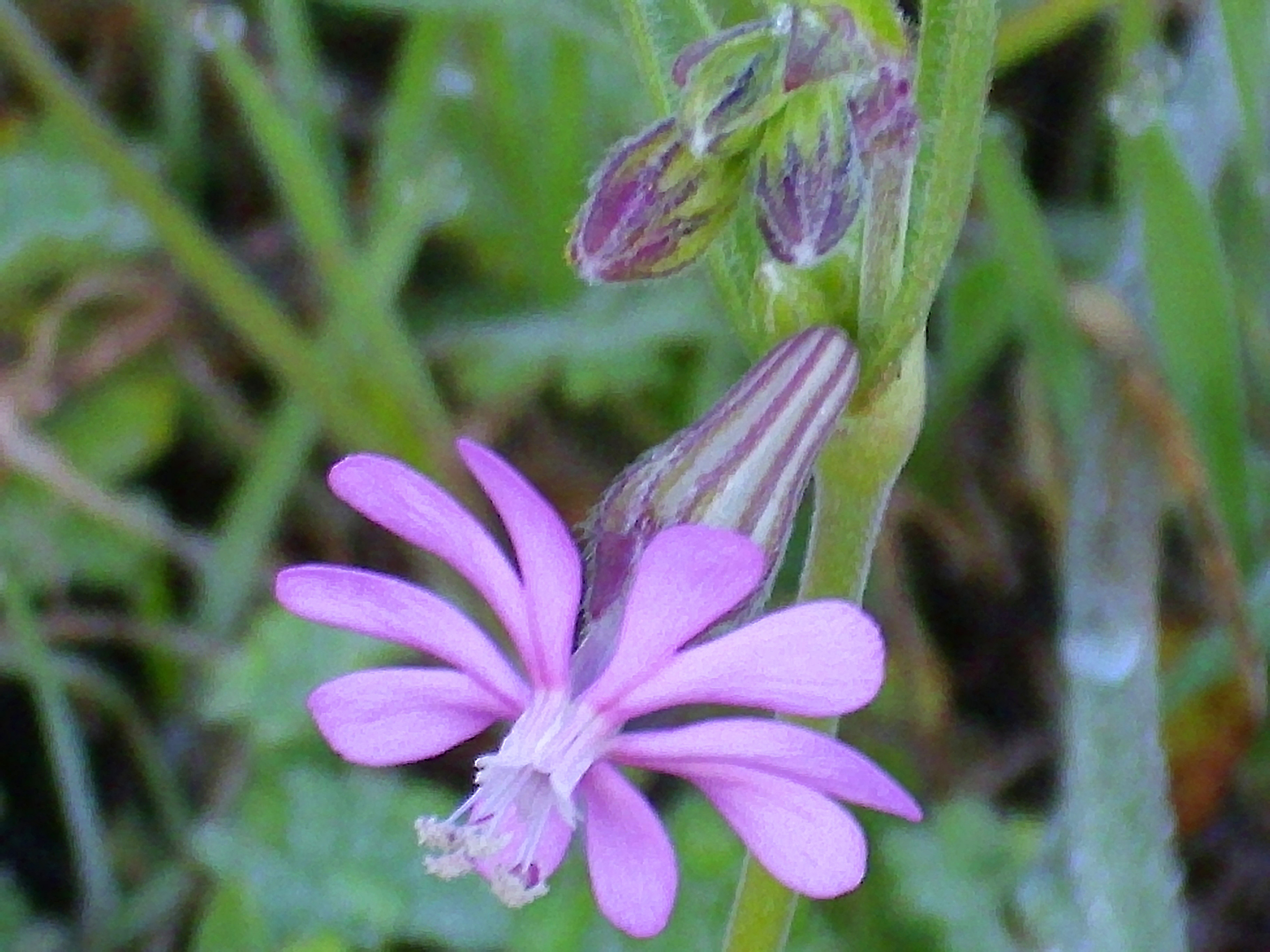 Silene littorea close up, Campo de Calatrava, Spain